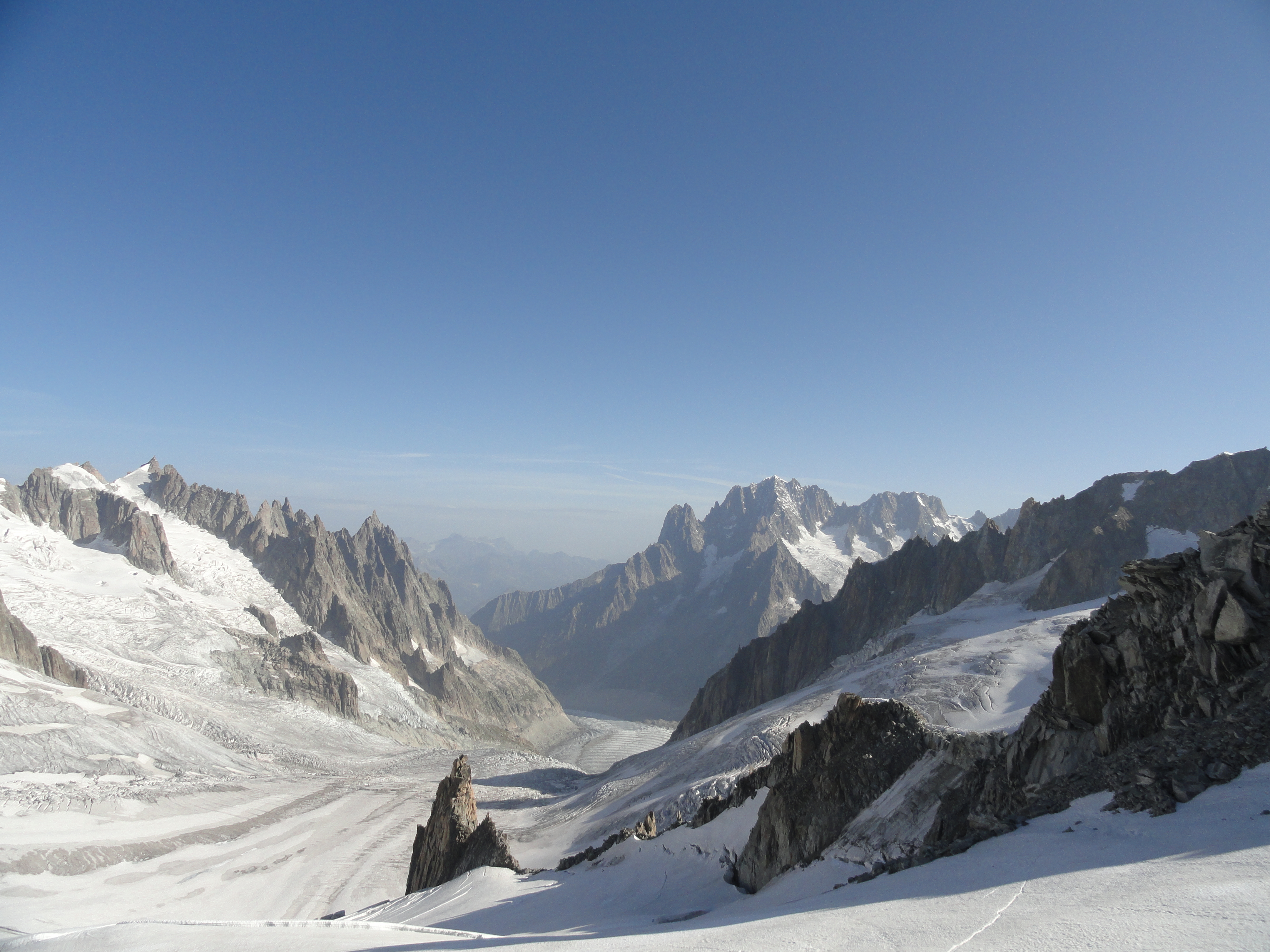 Mer de Glace, Mont Blanc, France